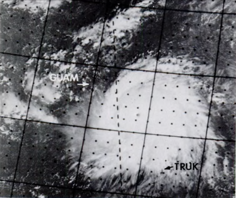 Rita at 145-kn intensity, 16hr before her closest point of approach to Guam at 2212 October 22. (DMSP Imagery)